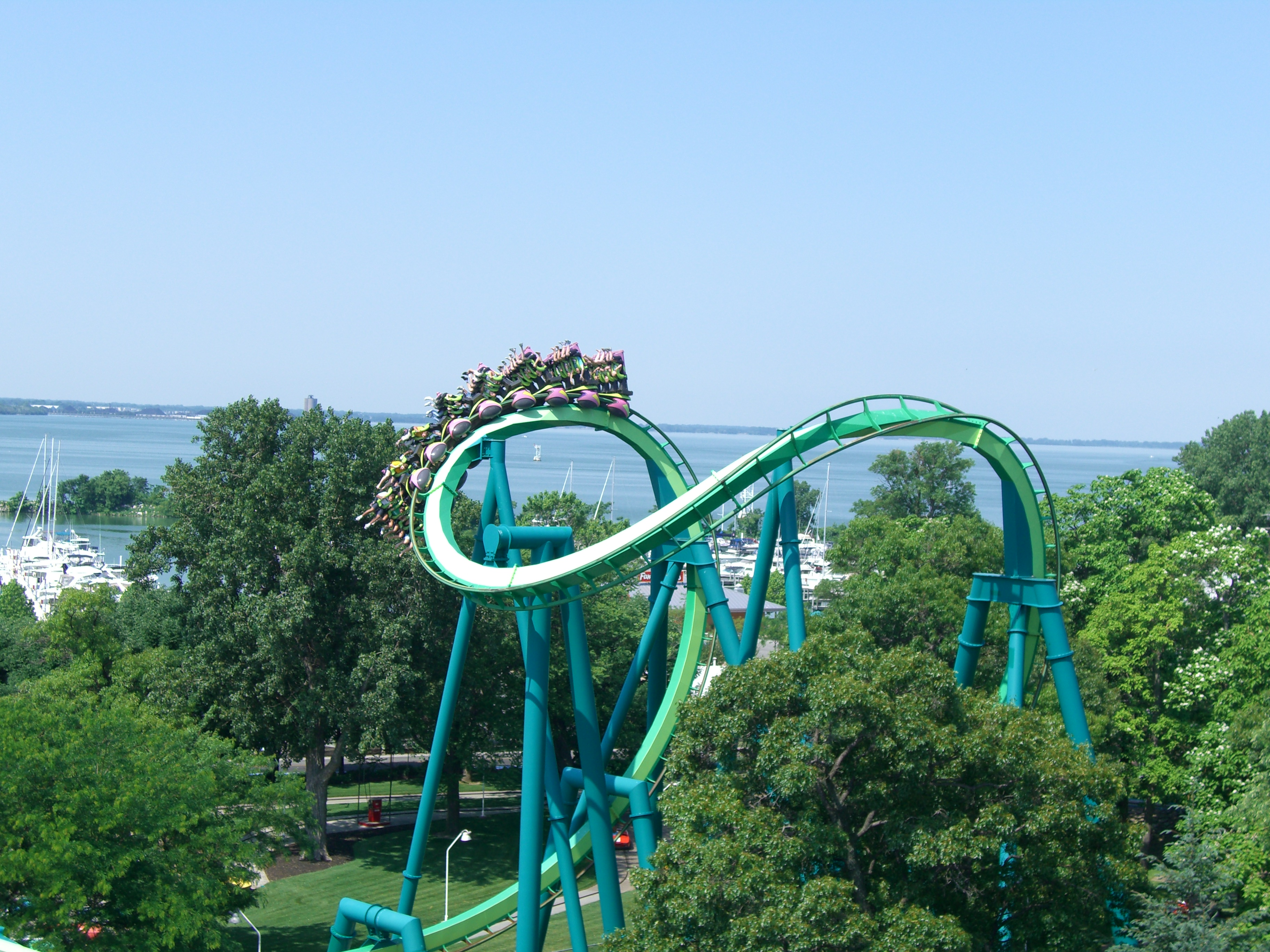 Raptor at Cedar Point.